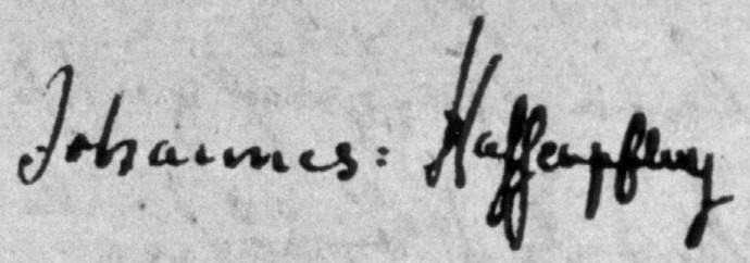 Signature of Johannes Hassenpflug